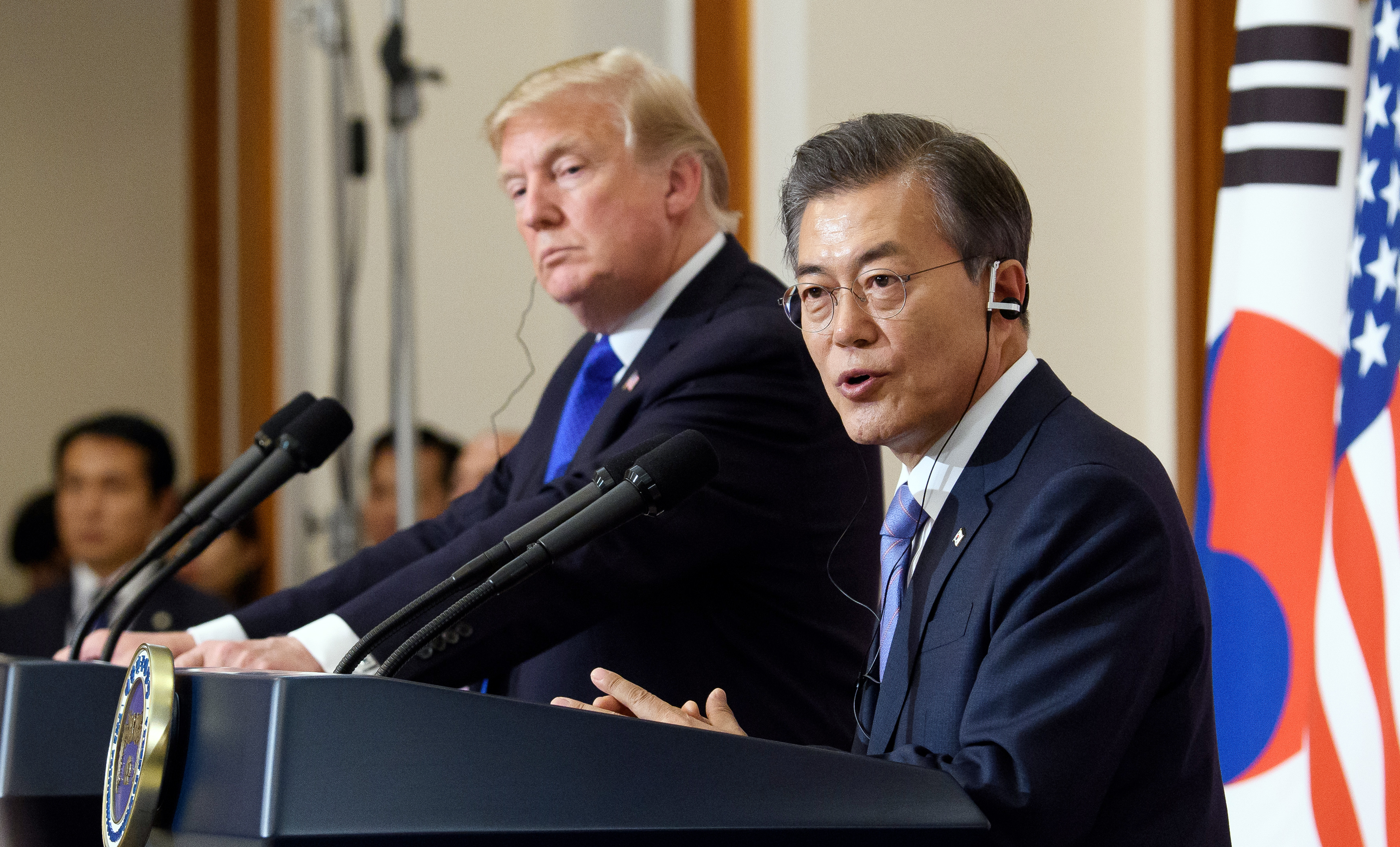 U.S. President Donald John Trump visits to Cheong Wa Dae